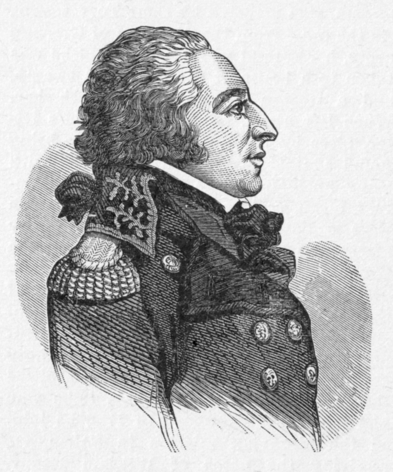 Engraving of Edmond-Charles Genêt (sometimes written as "Edmond Charles Genest").